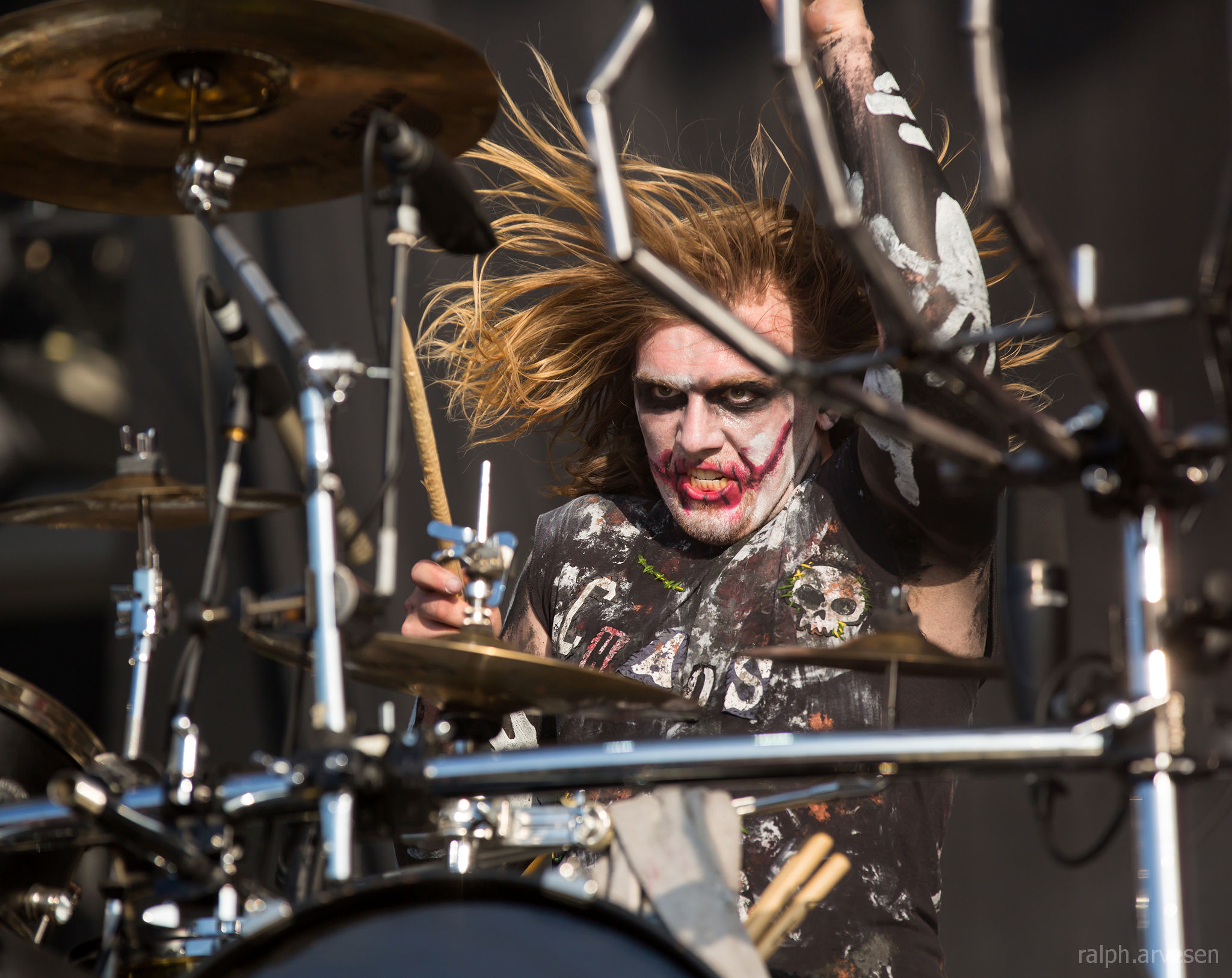 In This Moment performing in Austin, Texas (2016-08-02)